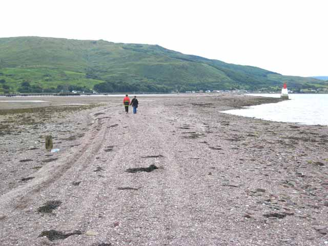 The Doirlinn The head of Kildalloig Bay drains at low tide, and for three hours either side of low water it is possible to walk out to Island Davaar. Here, two people are walking away from the island.